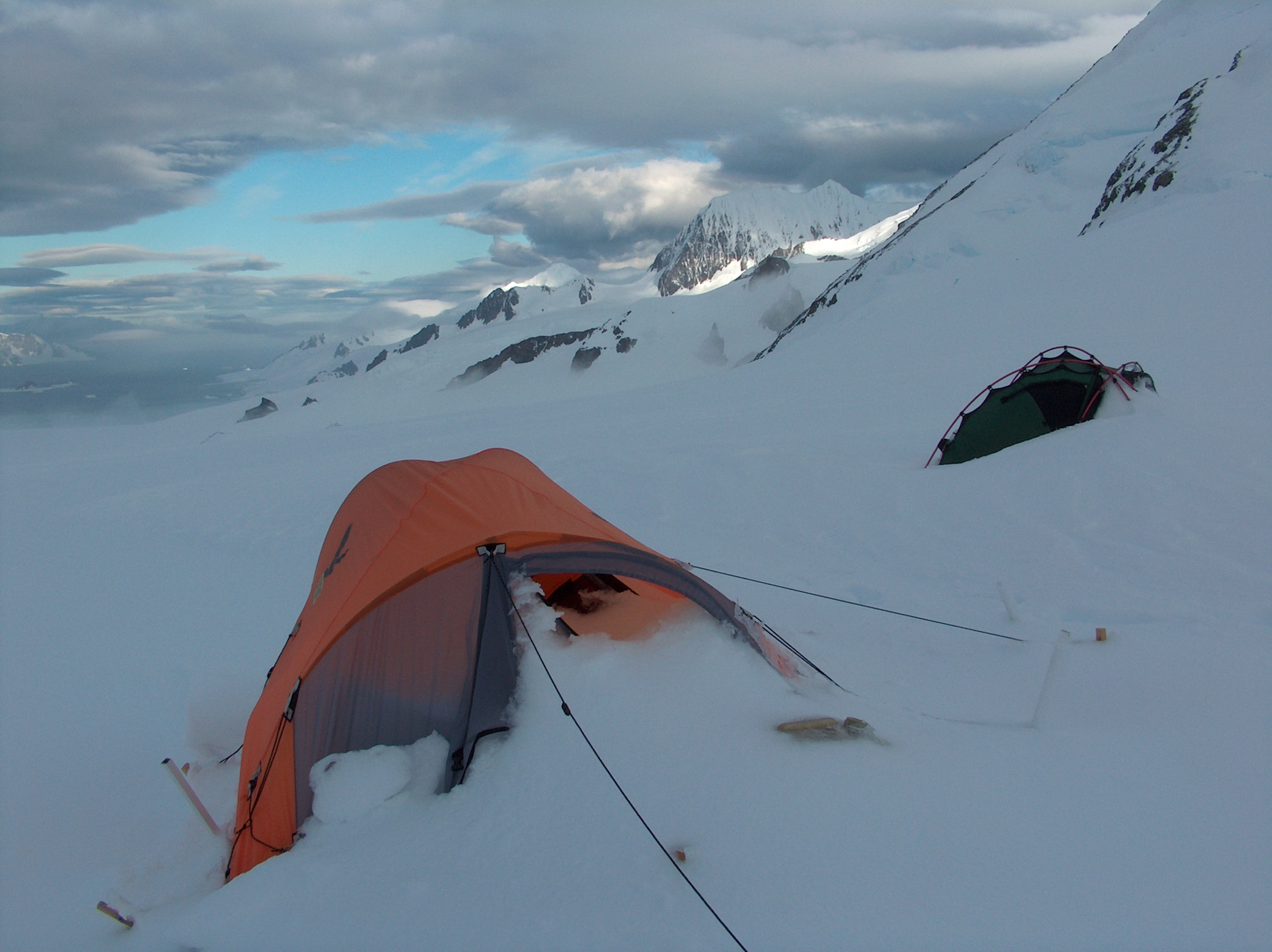 Camp Academia on Livingston Island in the South Shetland Islands, Antarctica, with the north slopes eastern Tangra Mountains and the southeast entrance to McFarlane Strait in the background. Viewpoint location: Camp Academia on Livingston Island, in the South Shetland Islands Viewpoint elevation: 541 meters Camera: HP PhotoSmart C945 (V01.54)